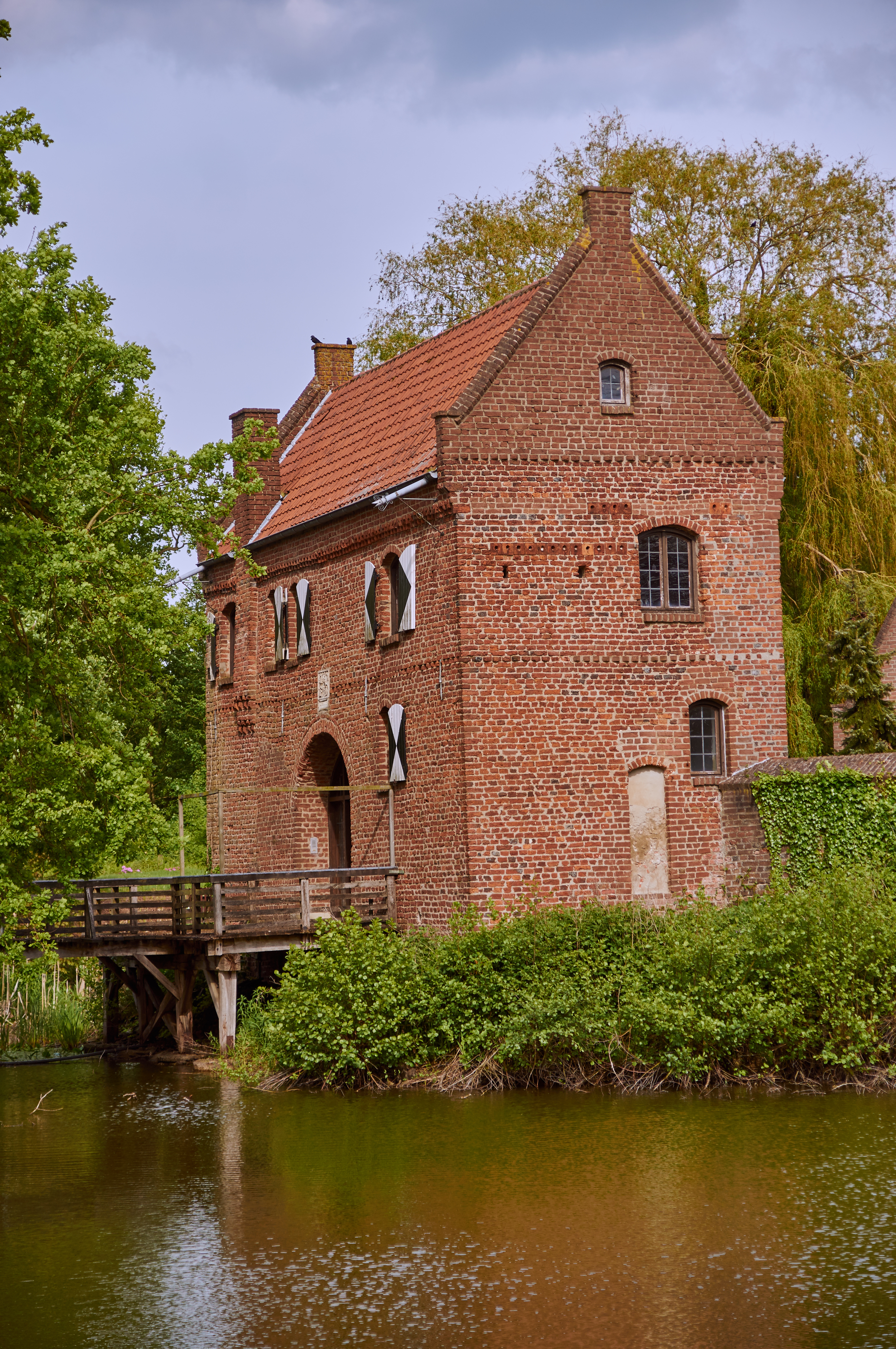 Torhaus von Schloss Diepenbrock in Barlo bei Bocholt. This is a photograph of an architectural monument.